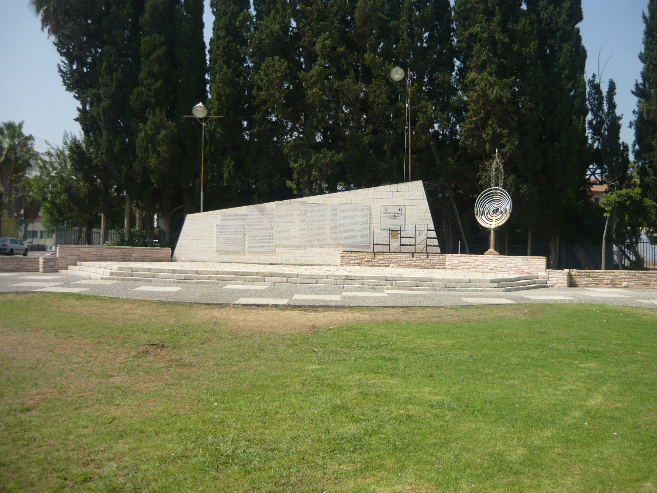 memorial wall in Afula קיר זכרון עם שמות הנופלים בני עפולה